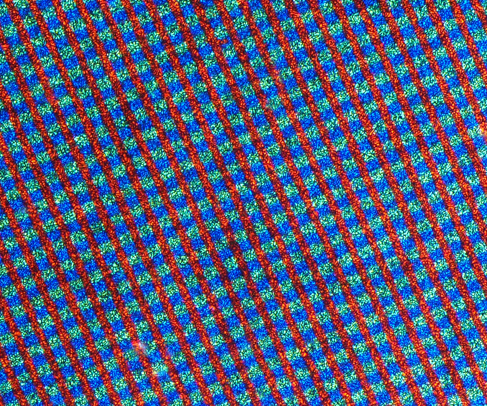 Closeup of Dufaycolor transparency showing color mosaic embedded in film's base.